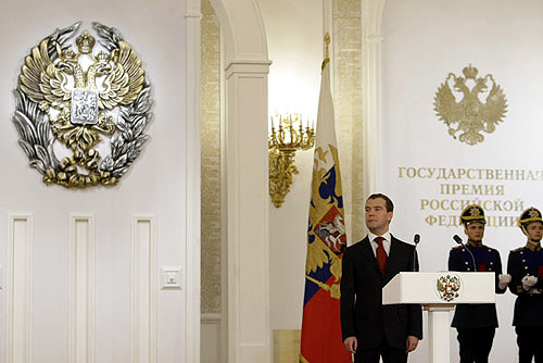 GRAND KREMLIN PALACE, MOSCOW. At Ceremony for Presenting the 2008 Russian National Awards.